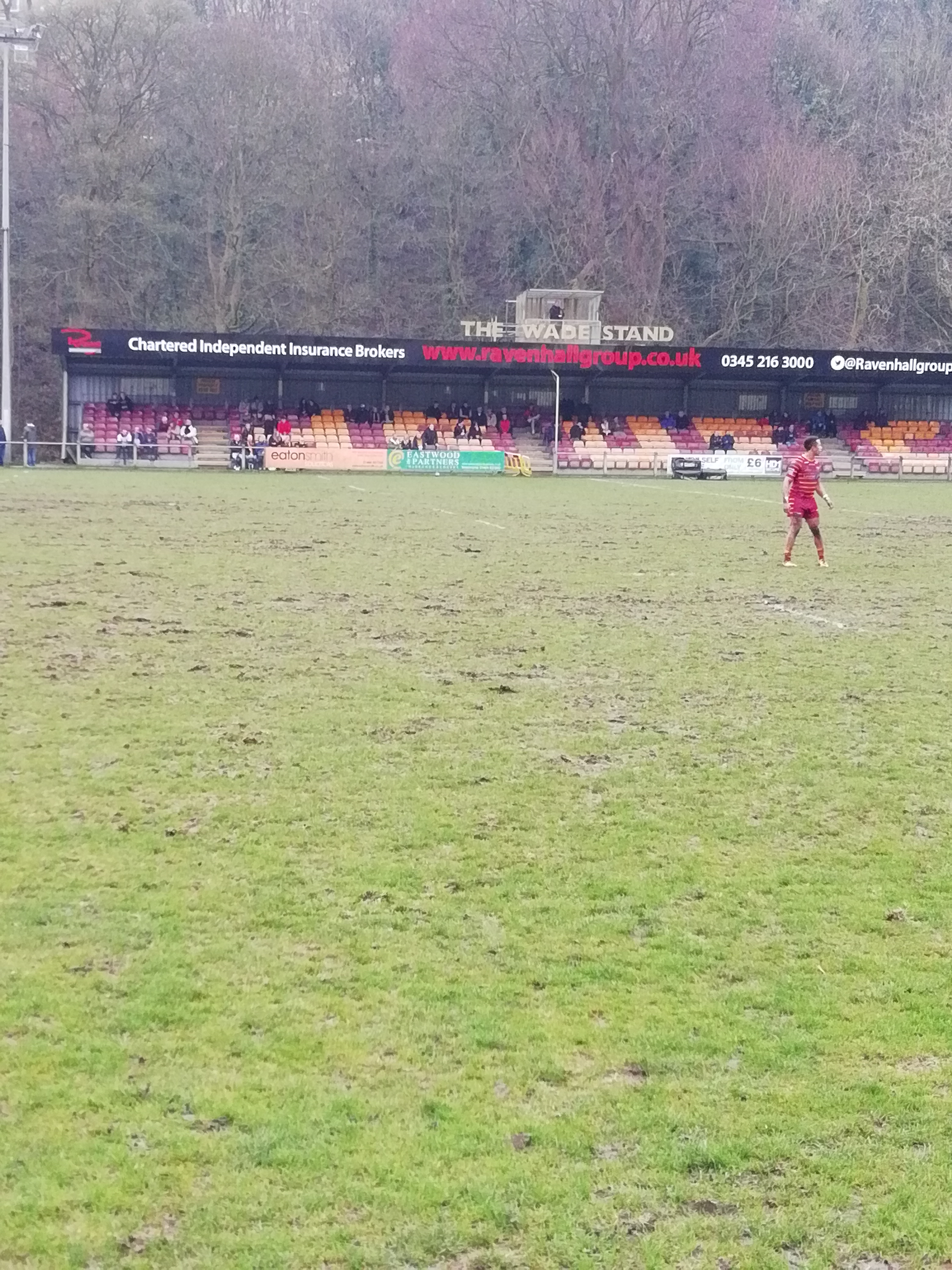 The stand at Lockwood park